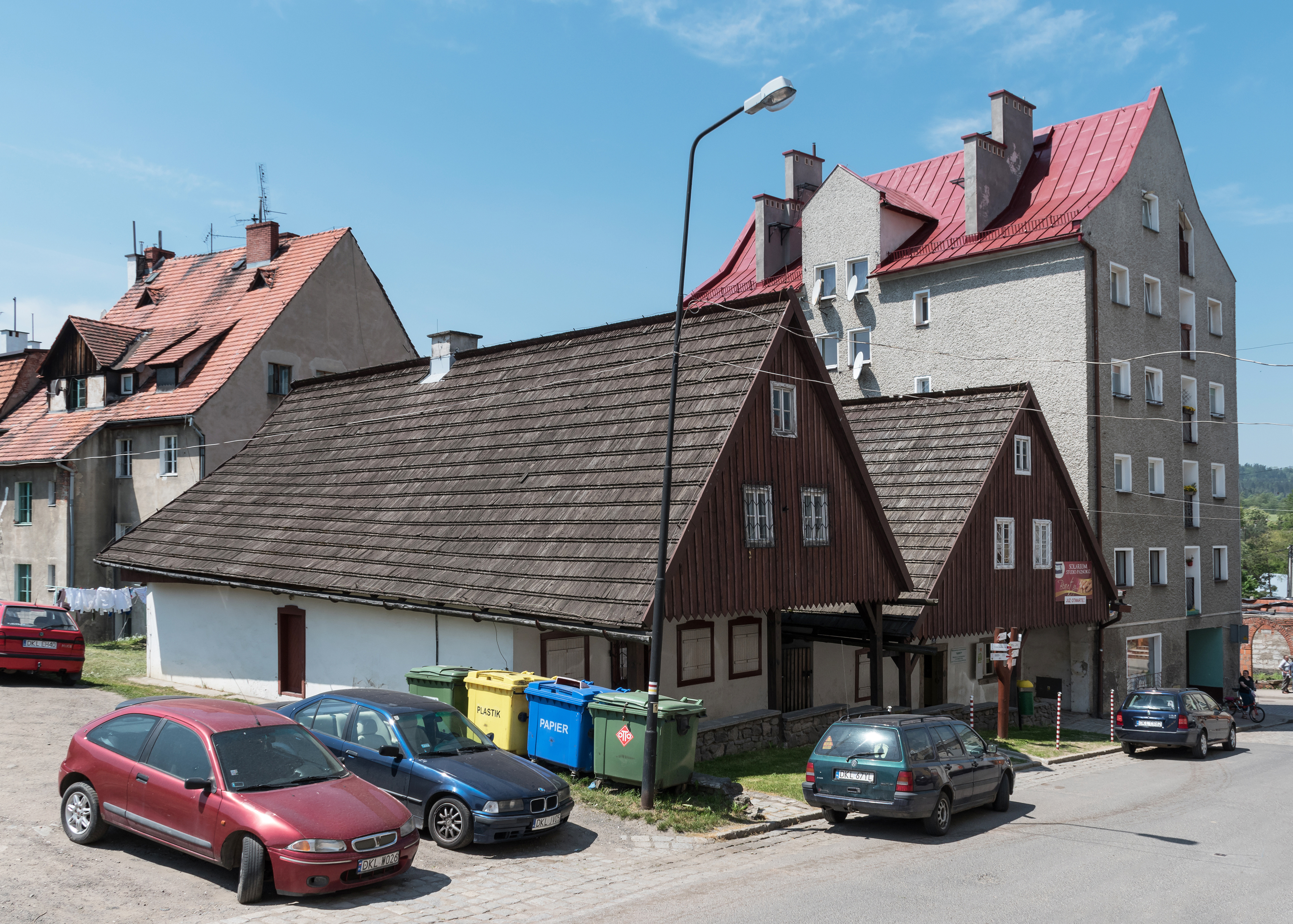 2-4 Sobieskiego Street in Międzylesie